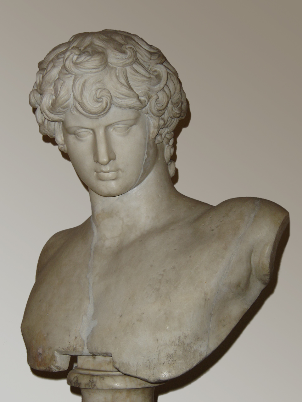 Bust of Antinous, from the Palazzo Altemps in Rome, Italy. I took this picture myself. The background has been recreated, and the edges have been cleaned up. In addition, the bust is moved left, and the very corner of the bust's shoulder is retouched in. This is a draft image. Note - you're welcome to retouch this image, but the 'halo' surrounding the entire bust was very unnatural. You're welcome to try again, for a more natural look... Thanks. -- RyanFreisling @ 01:03, 30 August 2005 (UTC) I was attempting to look at "diffs" and didn't realize that "rev" was a different function. At this diff, I explained my possible goof up.--GordonWattsDotCom 16:13, 2 September 2005 (UTC) Source: English Wikipedia, original see file history